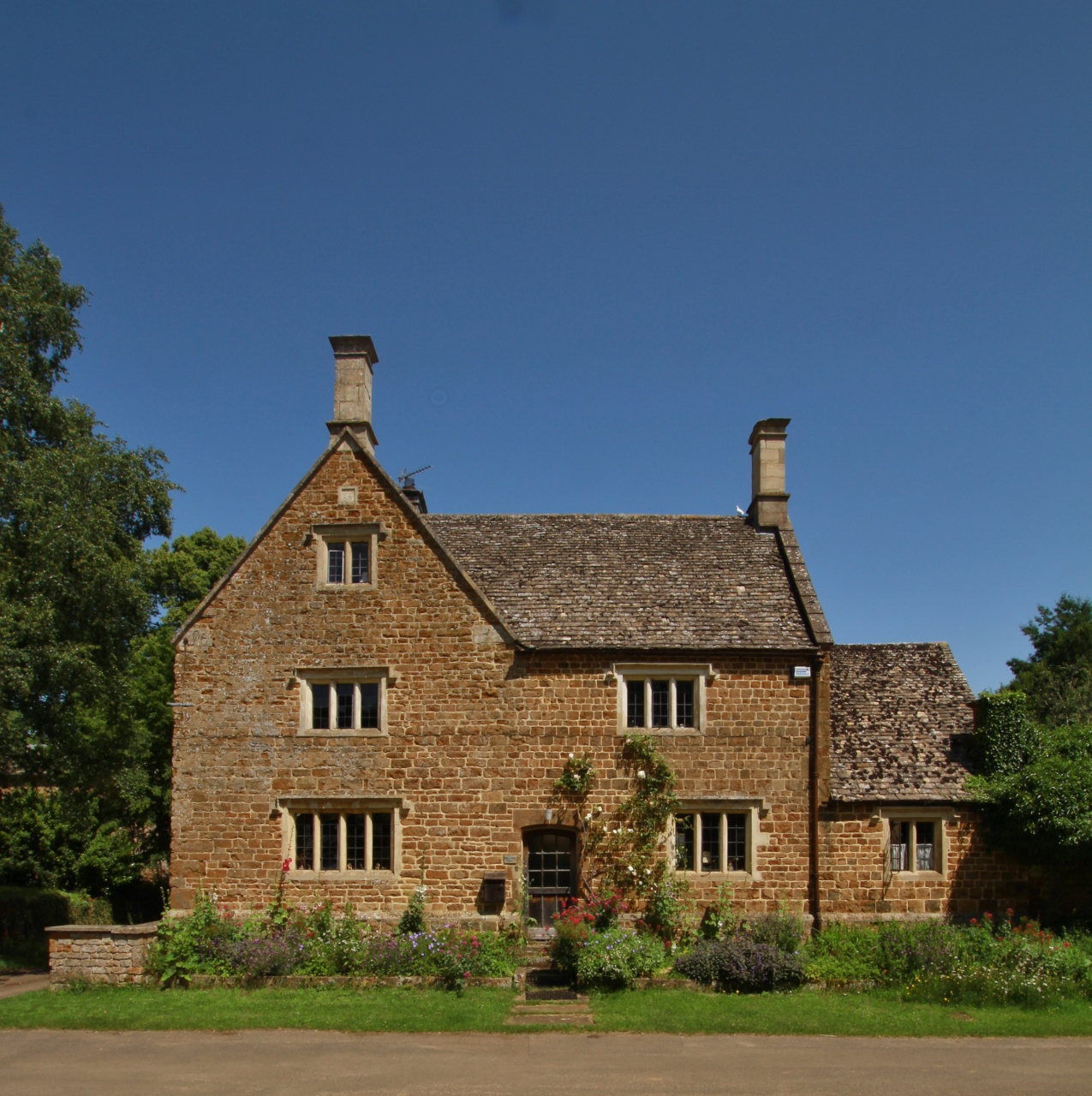 College Farmhouse, The Town, South Newington, Oxfordshire, seen from south-southwest